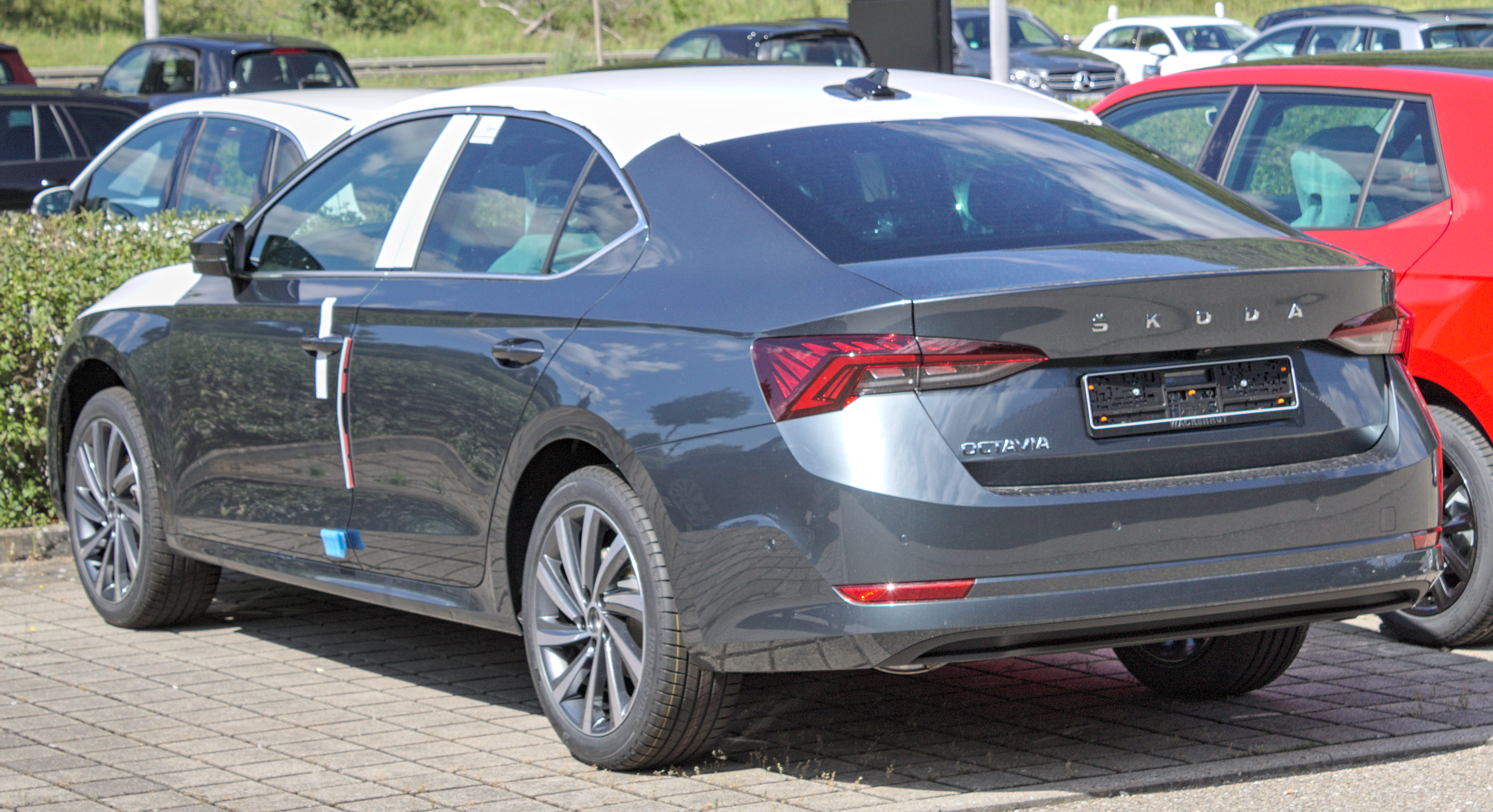 Skoda_Octavia_IV in Nagold